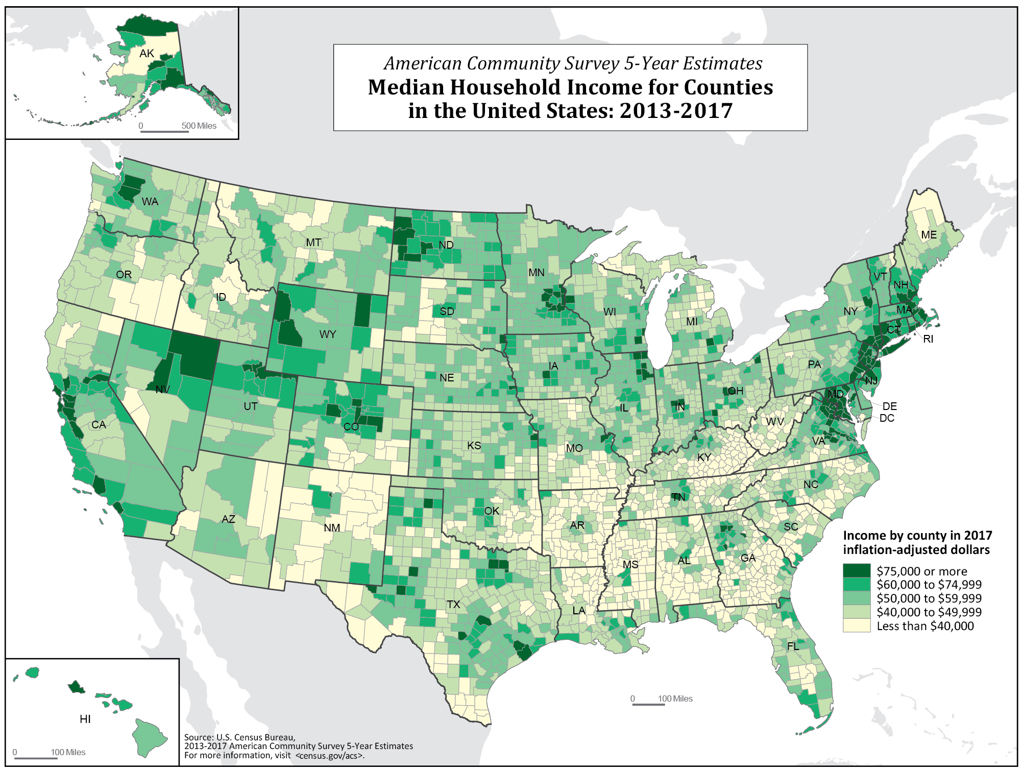 An infographic depicting median household income in the United States, by county, using 2013-2017 US Census Bureau estimates.